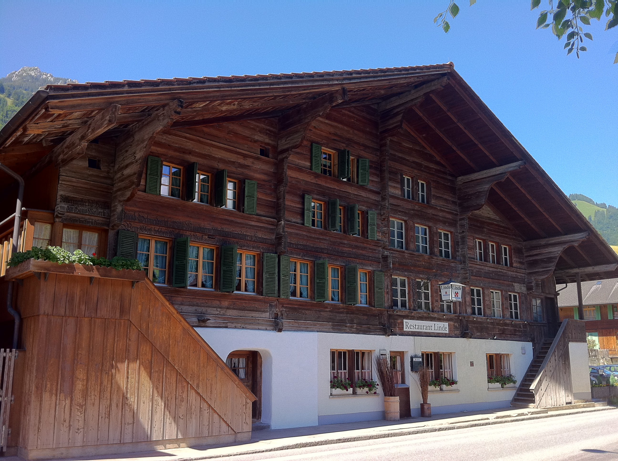 The "new" Linde in the village of Erlenbach im Simmental (Canton Bern) built in 1766 by master carpenter Hans Messerli Sr.